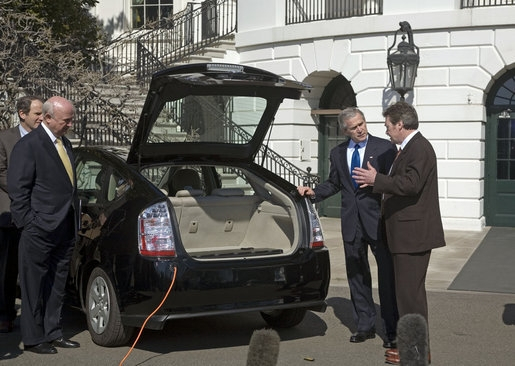 President Bush and Dave Vieau, CEO of A123 Systems, with a Hymotion-converted Prius, Friday, Feb. 23, 2007, on the South Lawn of the White House